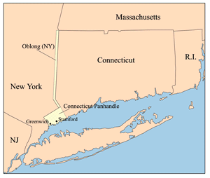 This is a map of the Connecticut Panhandle and "The Oblong" that I made.